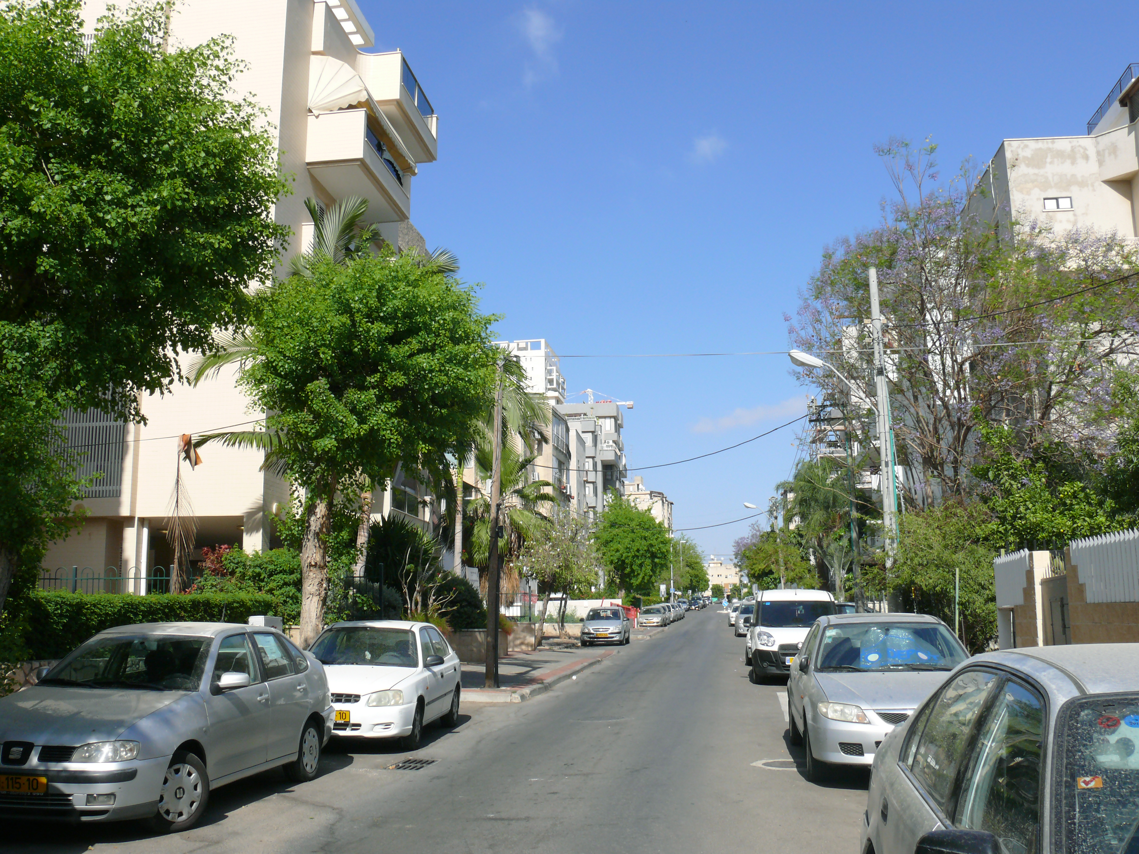 HaRambam street, Rishon LeZion, Israel